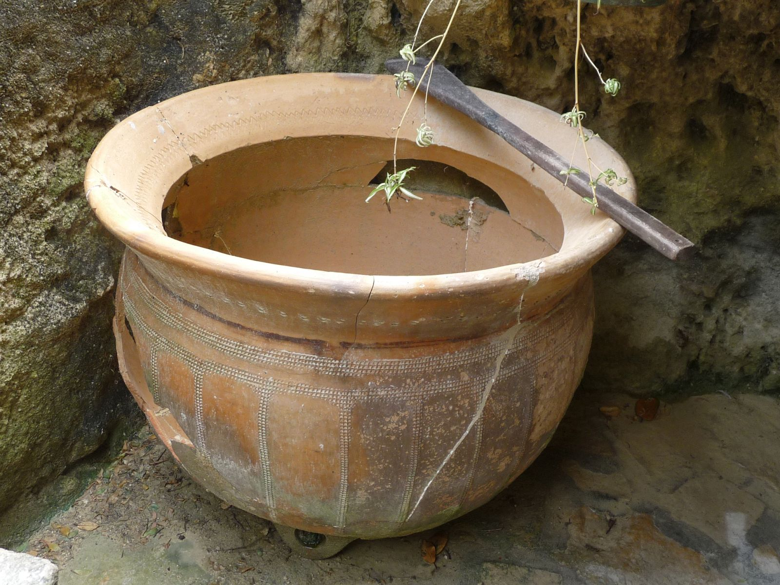 Terra-cotta "ponne" for laundry, caves of Matata, Meschers, Charente-Maritime, SW France